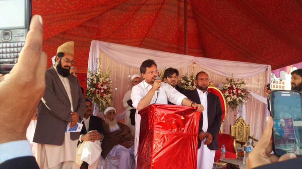 Shahzada Jamal Nazir Addressing Political Gathering